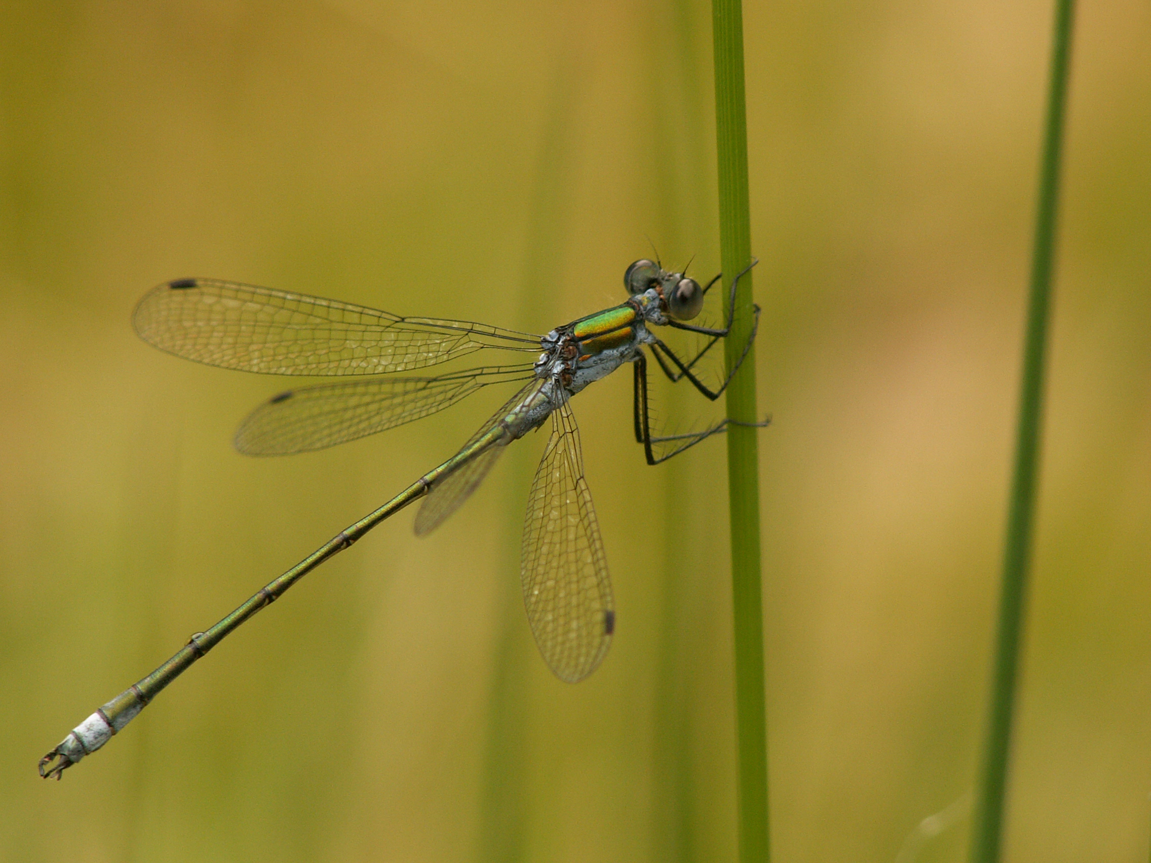 Male Lestes dryas from Wolfheze in the Netherlands, recognizable by the inward curved broad middle tips on the abdomen visible at 100% magnification